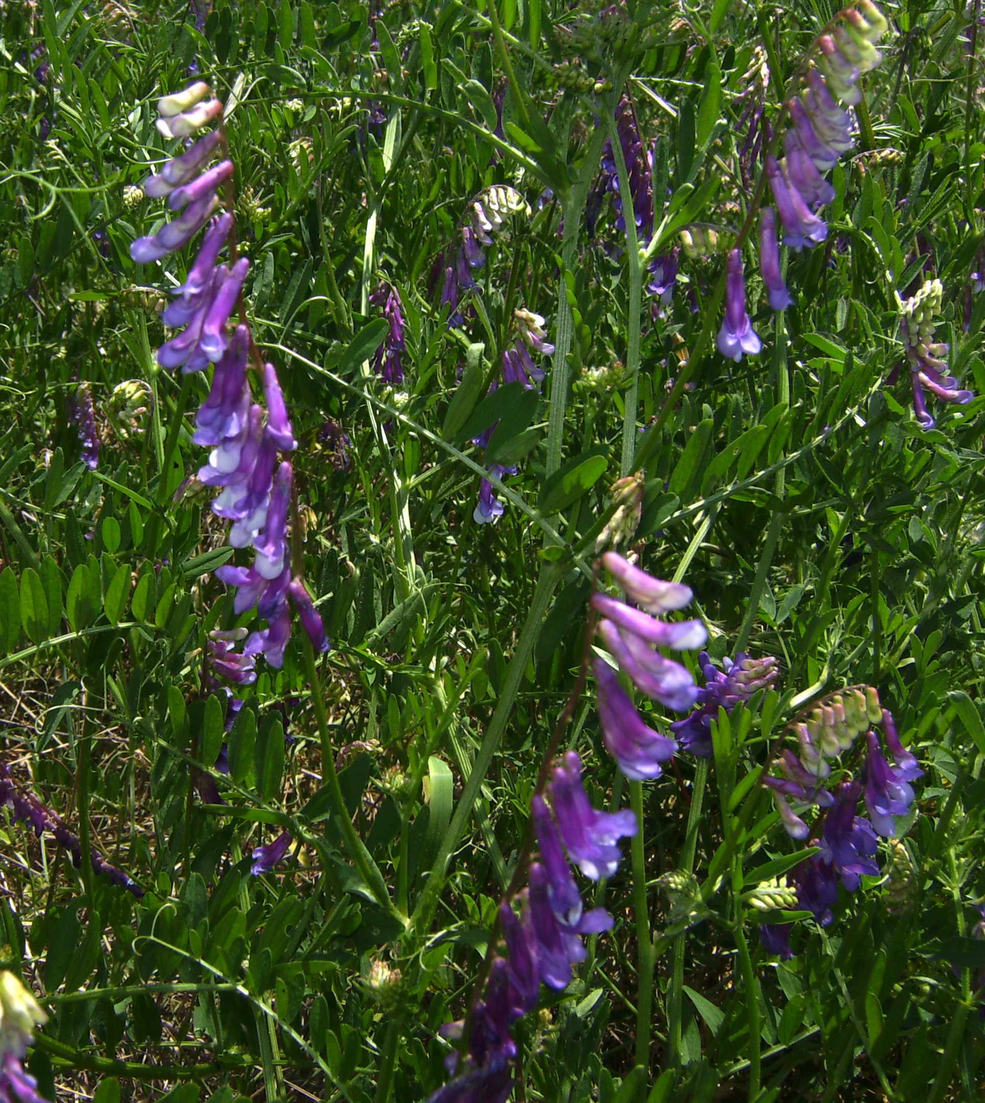 Vicia cracca flowering, Castelltallat, Catalonia